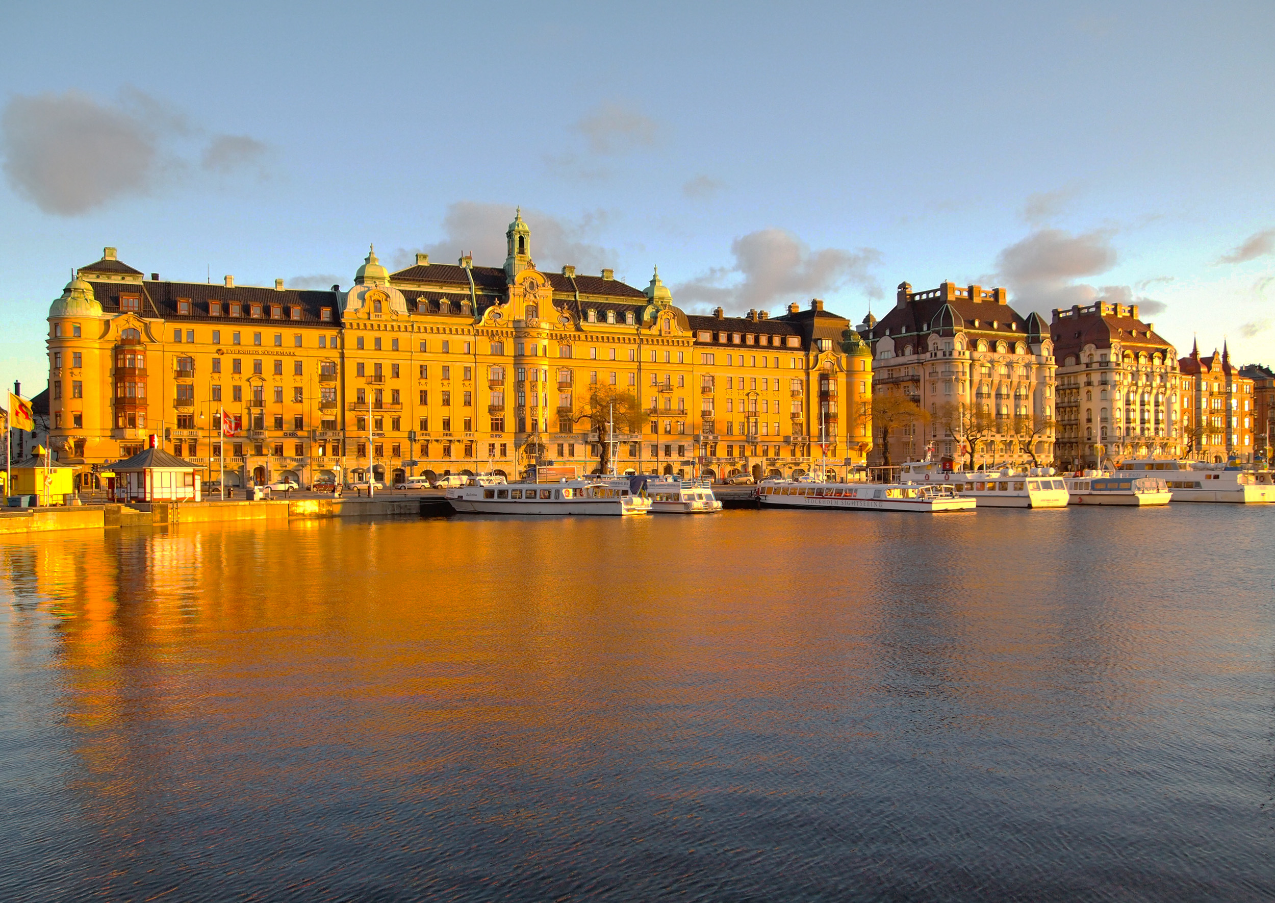 Buildings on the Strandvägen in the light of morning sun. View from the Nybrokajen street.This photograph was taken with an Olympus E-PL1